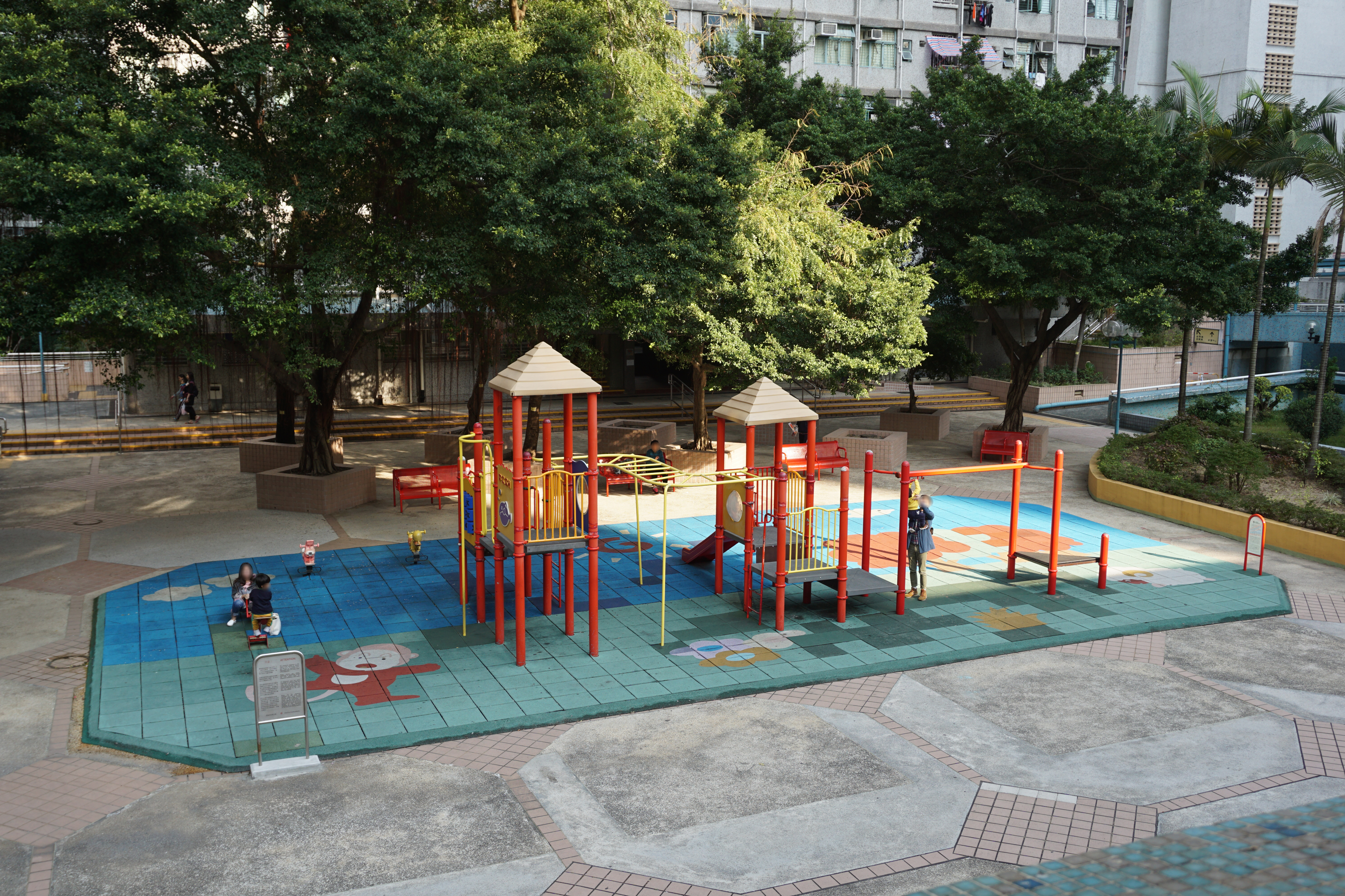 Wang Tau Hom Estate in Lok Fu, Hong Kong.